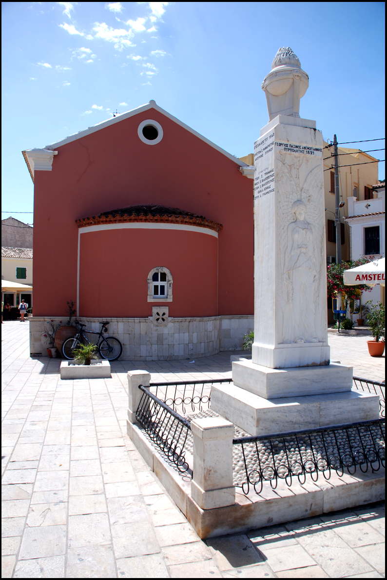 Analipsi Church, central square of Gaios next to the port, Paxoi. View from the harbour (from the East)